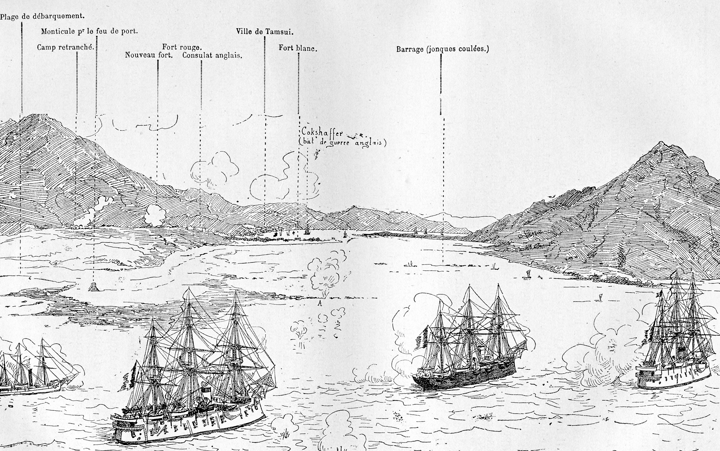 French warships bombard the Chinese coastal defences at Tamsui, 2 October 1884; from left to right the gunboat Vipère, the ironclad Triomphante, the cruiser d'Estaing and the ironclad La Galissonnière